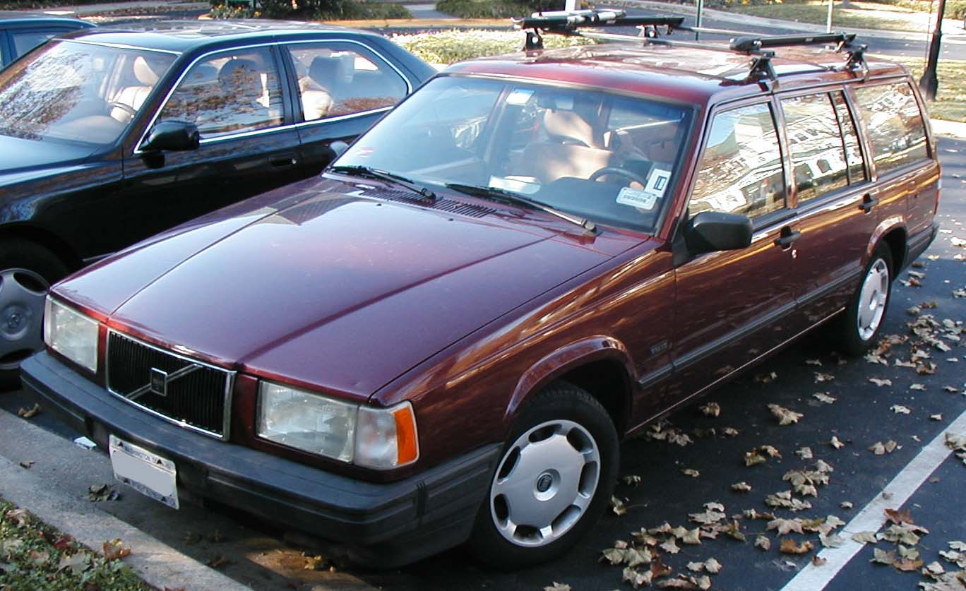 Volvo 940 wagon photographed in USA.